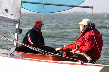 Winner 2008 Vintage Yachting Games Dragon